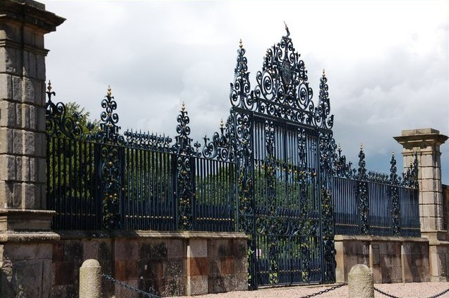 Hillsborough Castle was built around 1760. It is now the residence of the Secretary of State. It is used by royal visitors and for high-level political meetings. George Bush was a fairly recent visitor. The splendid ornamental gates were originally part of Richhill Castle.